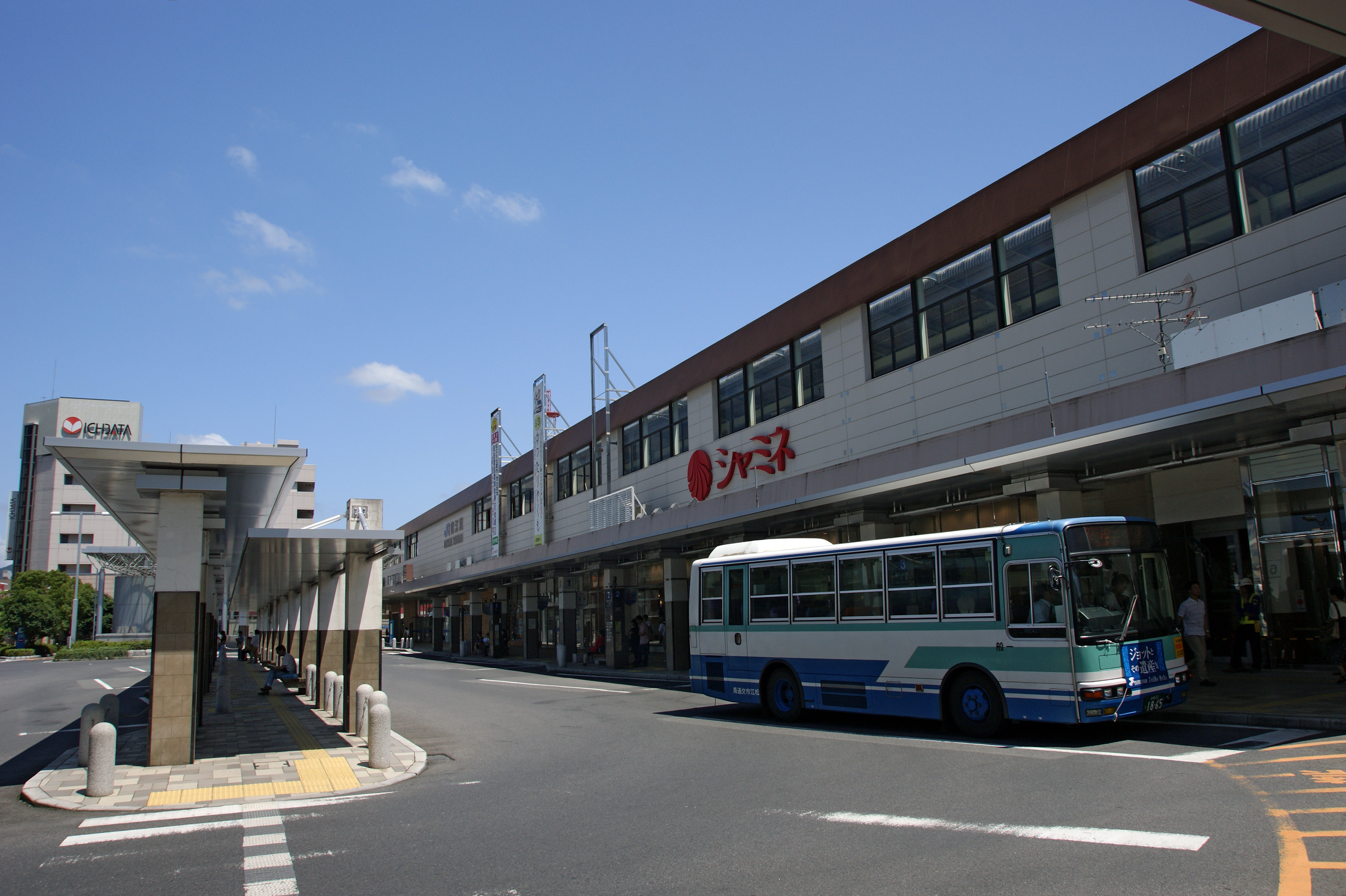 Matsue Station in Matsue, Shimane prefecture, Japan